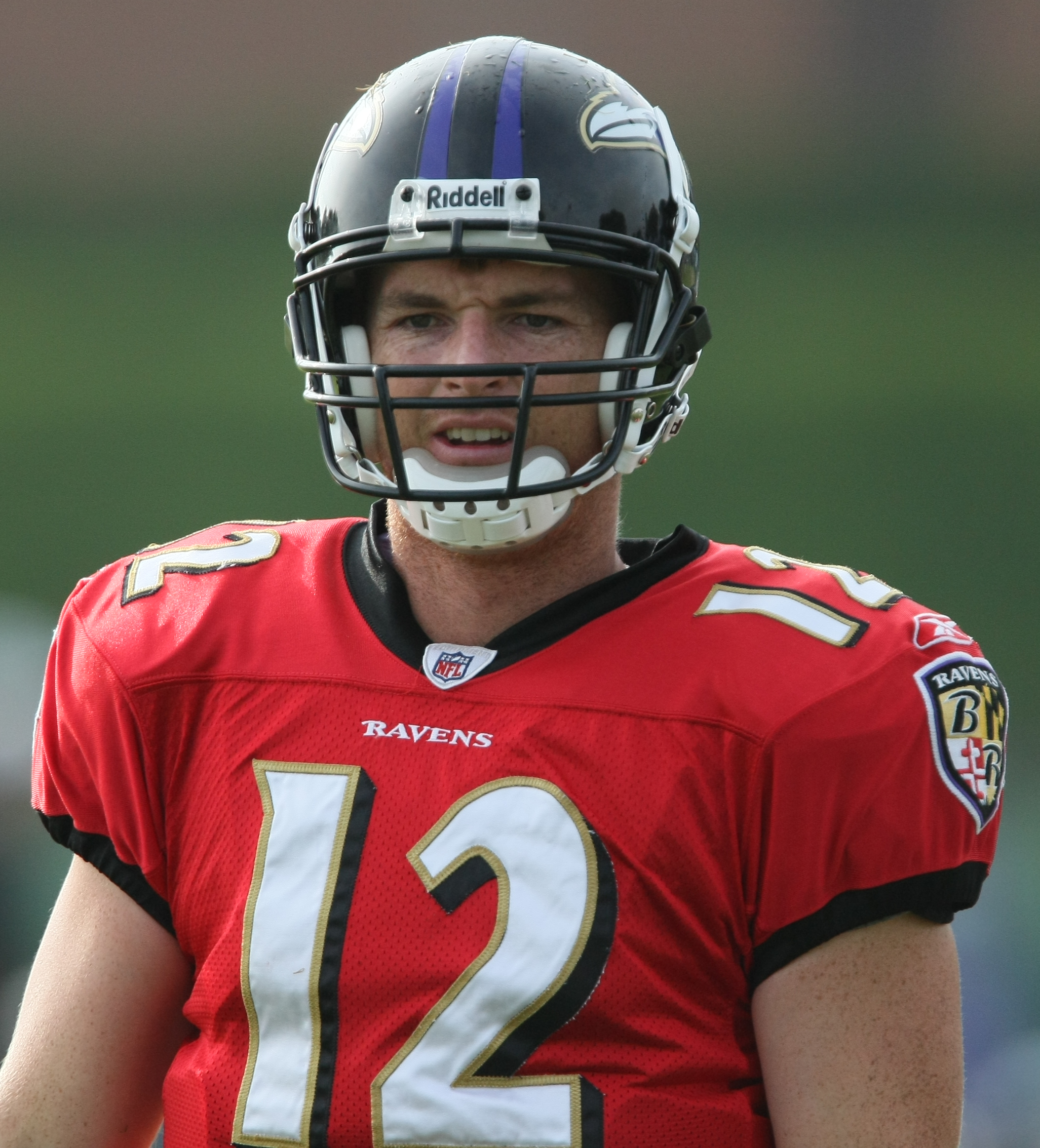 Baltimore Ravens quarterback John Beck during training camp on August 20, 2009.